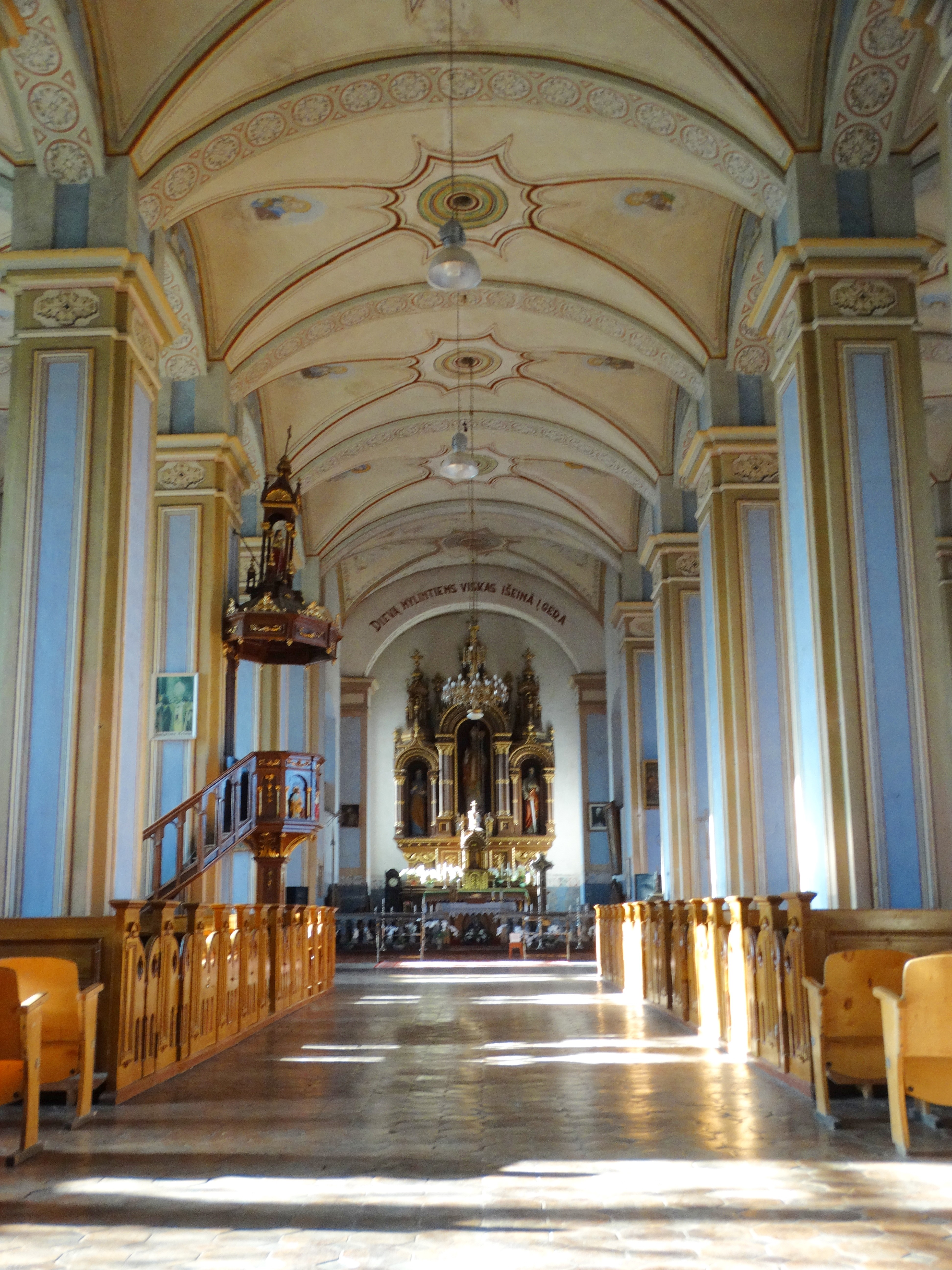 Kuliai Catholic Church, interior, Plungė District, Lithuania